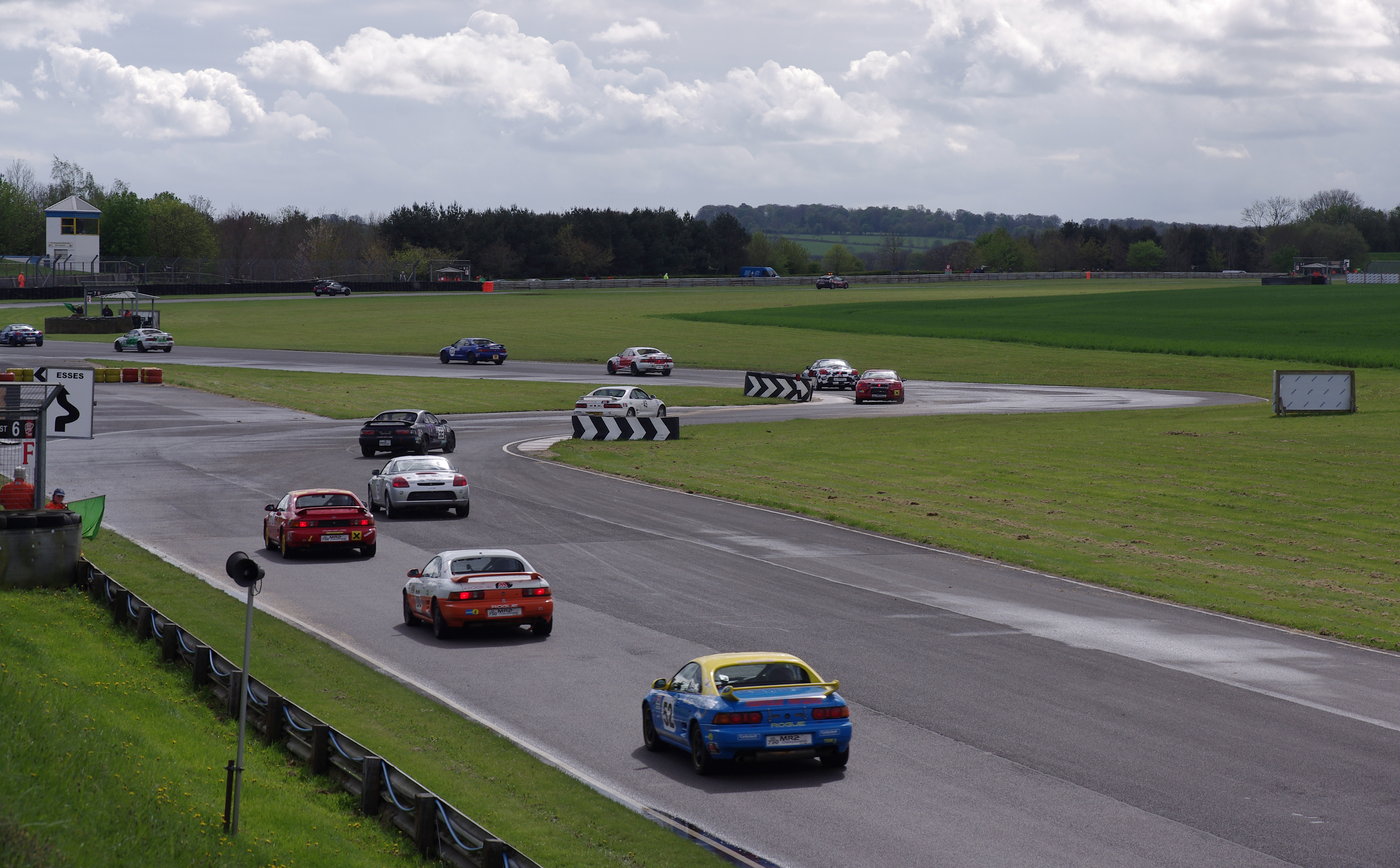 750MC Toyota MR2 Championship at Castle Combe's Motors TV race day, 7th May 2012.